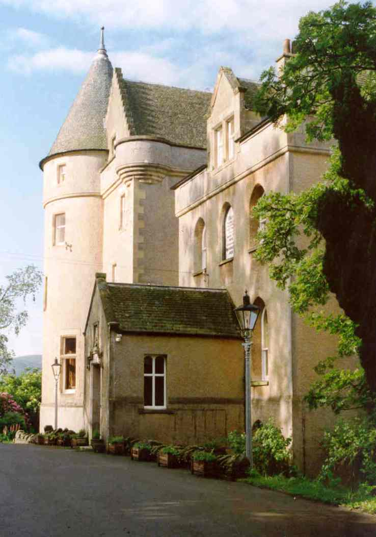 Venlaw Castle